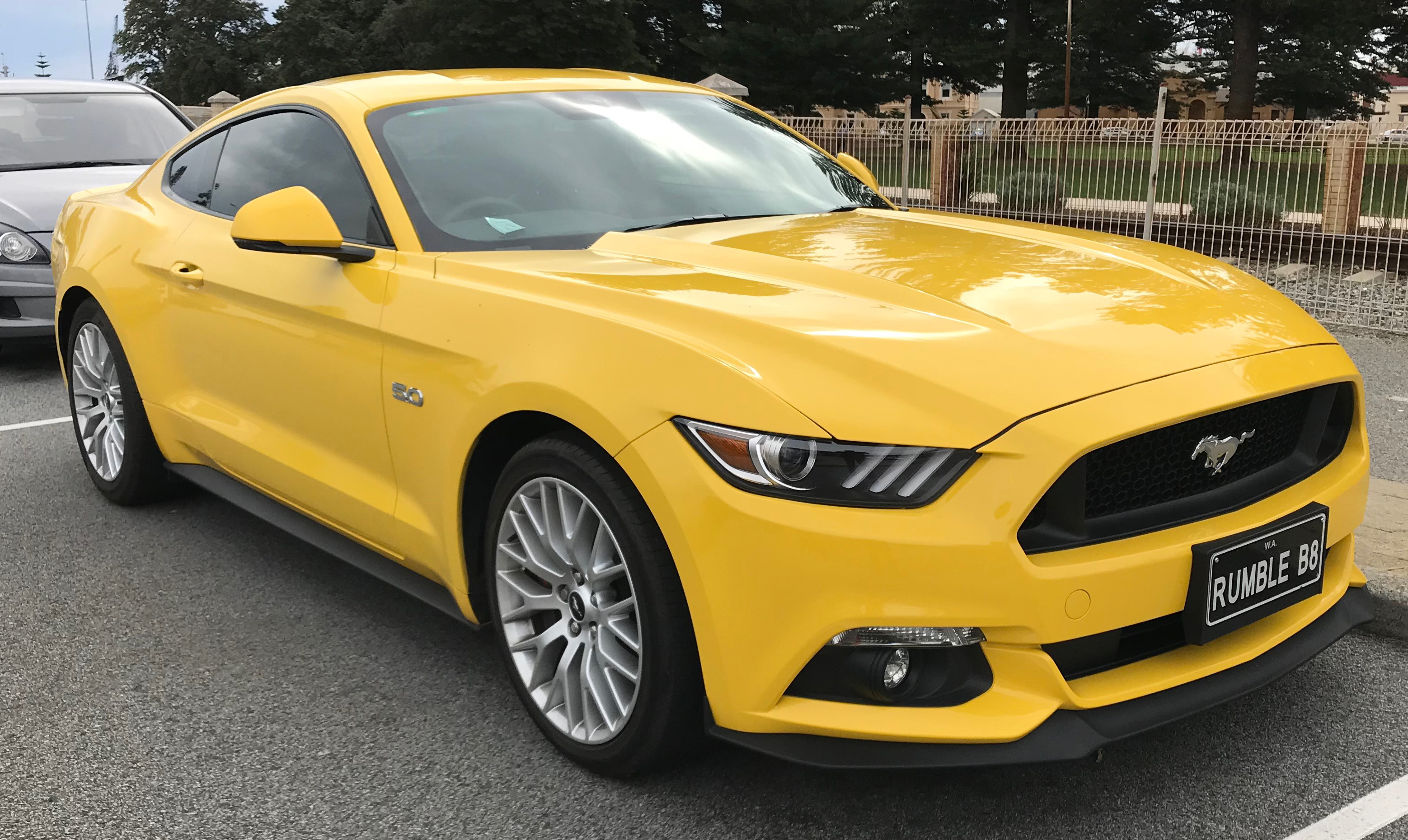 2014-2017 Ford Mustang (FM) GT coupe. Please note I took the rear on my DSLR, but could not acquire front shot on DSLR due to dead battery. Photographed in Fremantle, Western Australia, Australia.